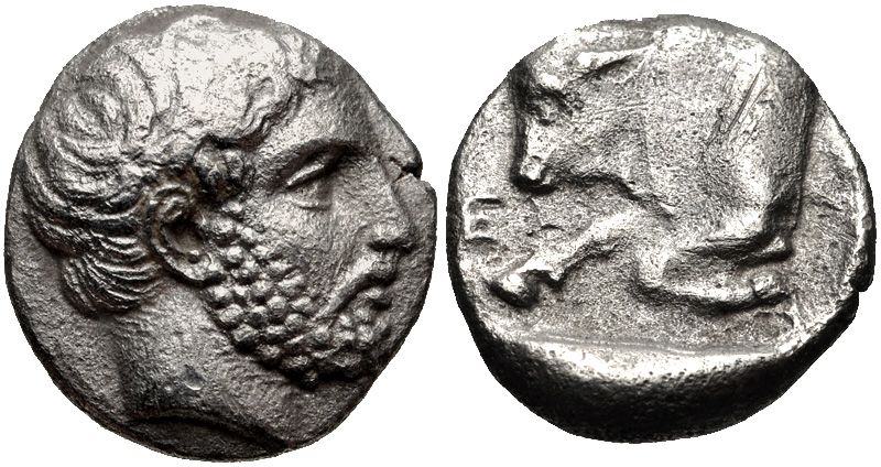 SATRAPS of CARIA. Hekatomnos. Circa 392-1-377-6 BC